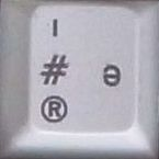 Key at position C12 (according to the ISO/IEC 9995-1 reference grid) of a German computer keyboard showing a T2 layout according to the German standard DIN 2137-01:2012-06